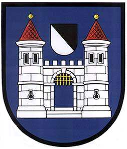 Coat of Arms of Czech city Říčany u Prahy.